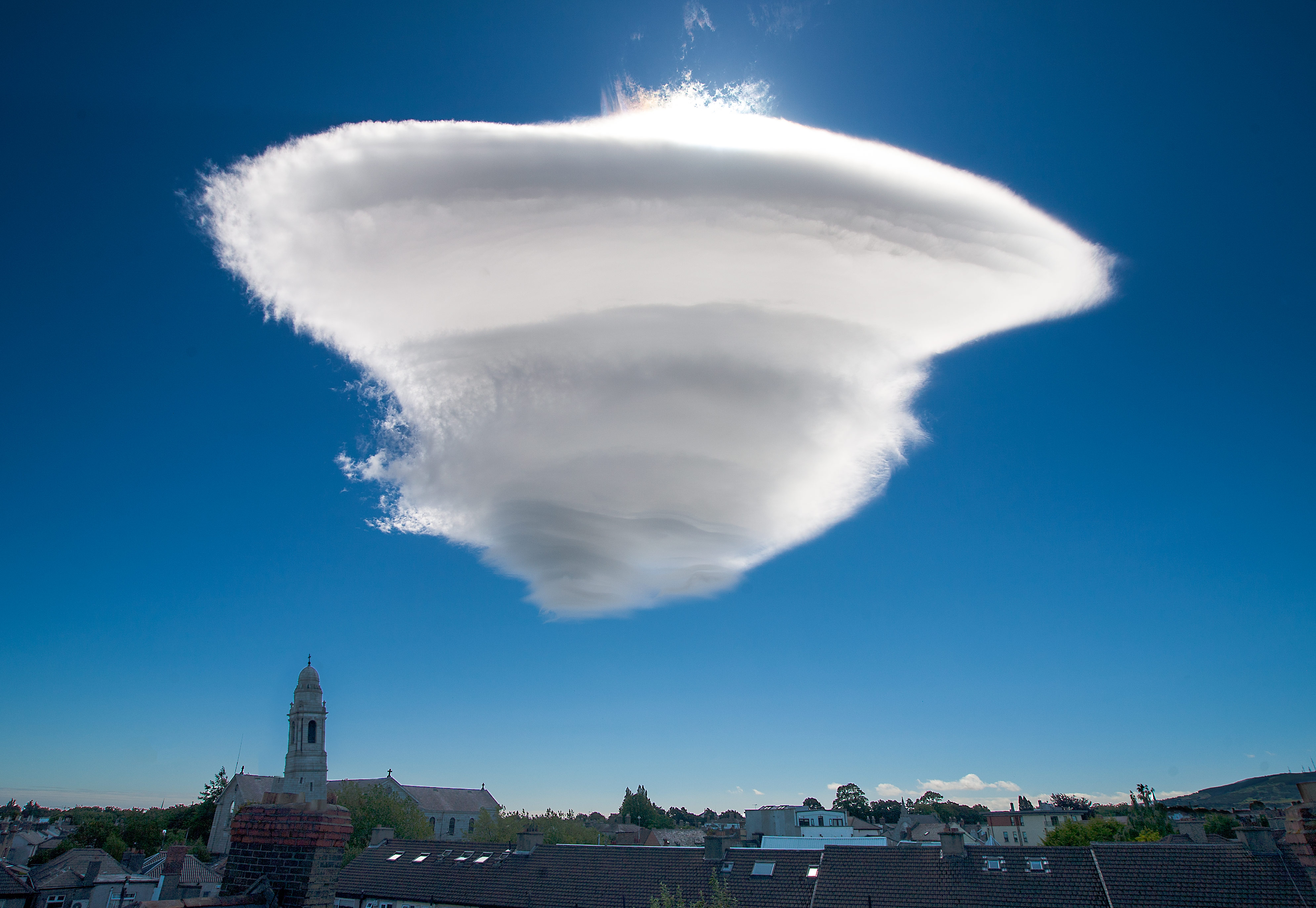 Lenticular Cloud over Harold's Cross Dublin Ireland taken at 11:30AM, 30th June 2015